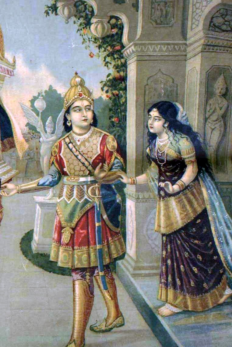 "Uttara and Abhimanyu," as he goes off to the battle in which he will be killed; bazaar art, c.1930's